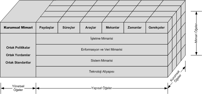 A generic enterprise architecture framework